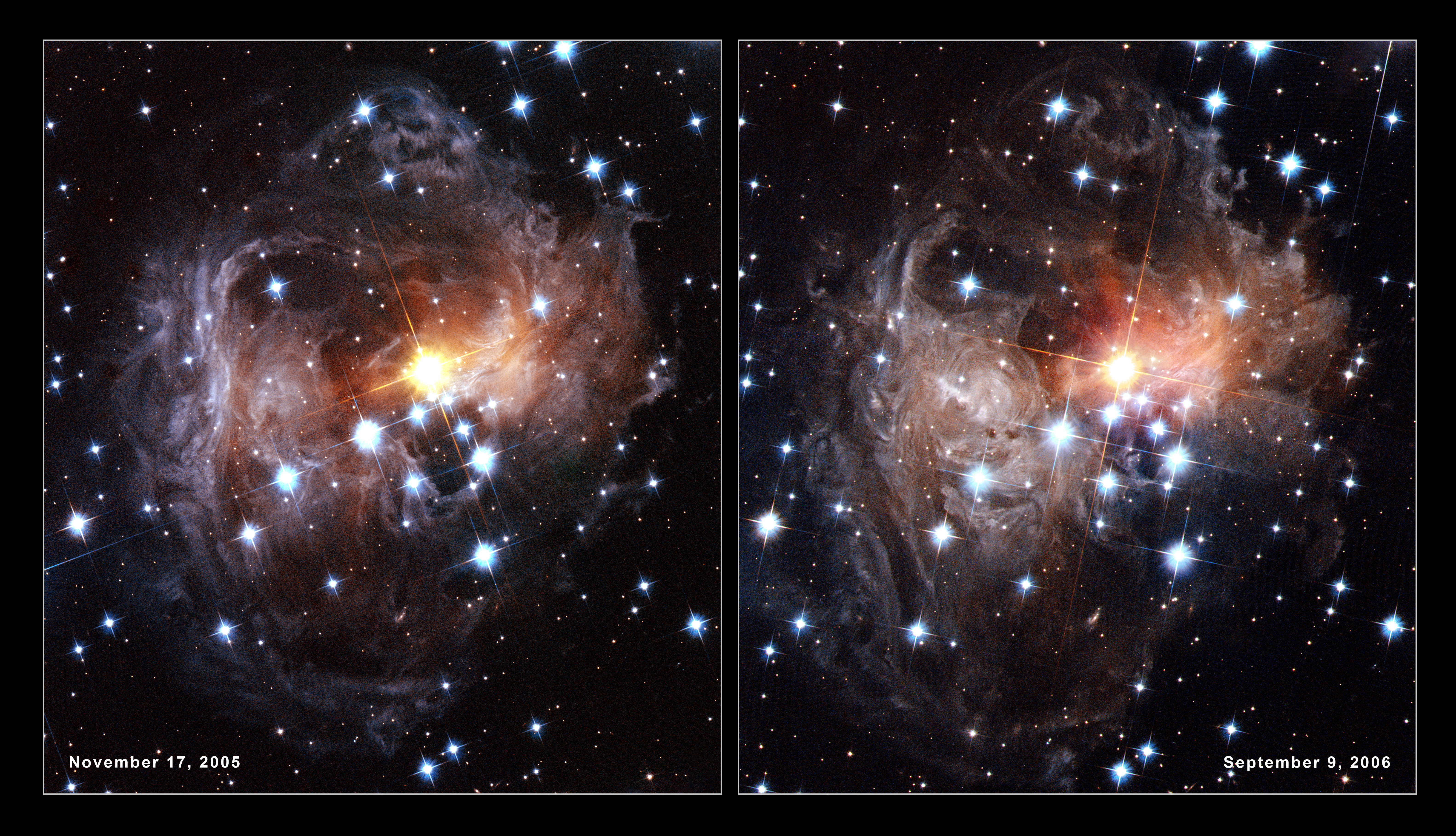 These images show the evolution of the light echo around the star V838 in the constellation of Monoceros. They were taken by the Hubble Advanced Camera for Surveys in November 2005 (left) and again in September 2006 (right). The numerous whorls and eddies in the interstellar dust are particularly noticeable. Possibly they have been produced by the effects of magnetic fields in the space between the stars.